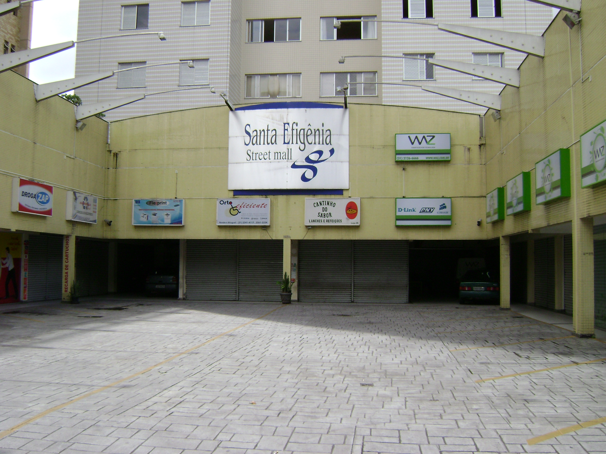 Entrada do Santa Efigênia Street Mall, em Belo Horizonte.